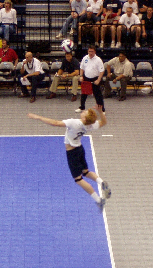 Jump serve in the 2006 NCAA semifinal between Penn State and University of California, Irvine at Rec Hall.